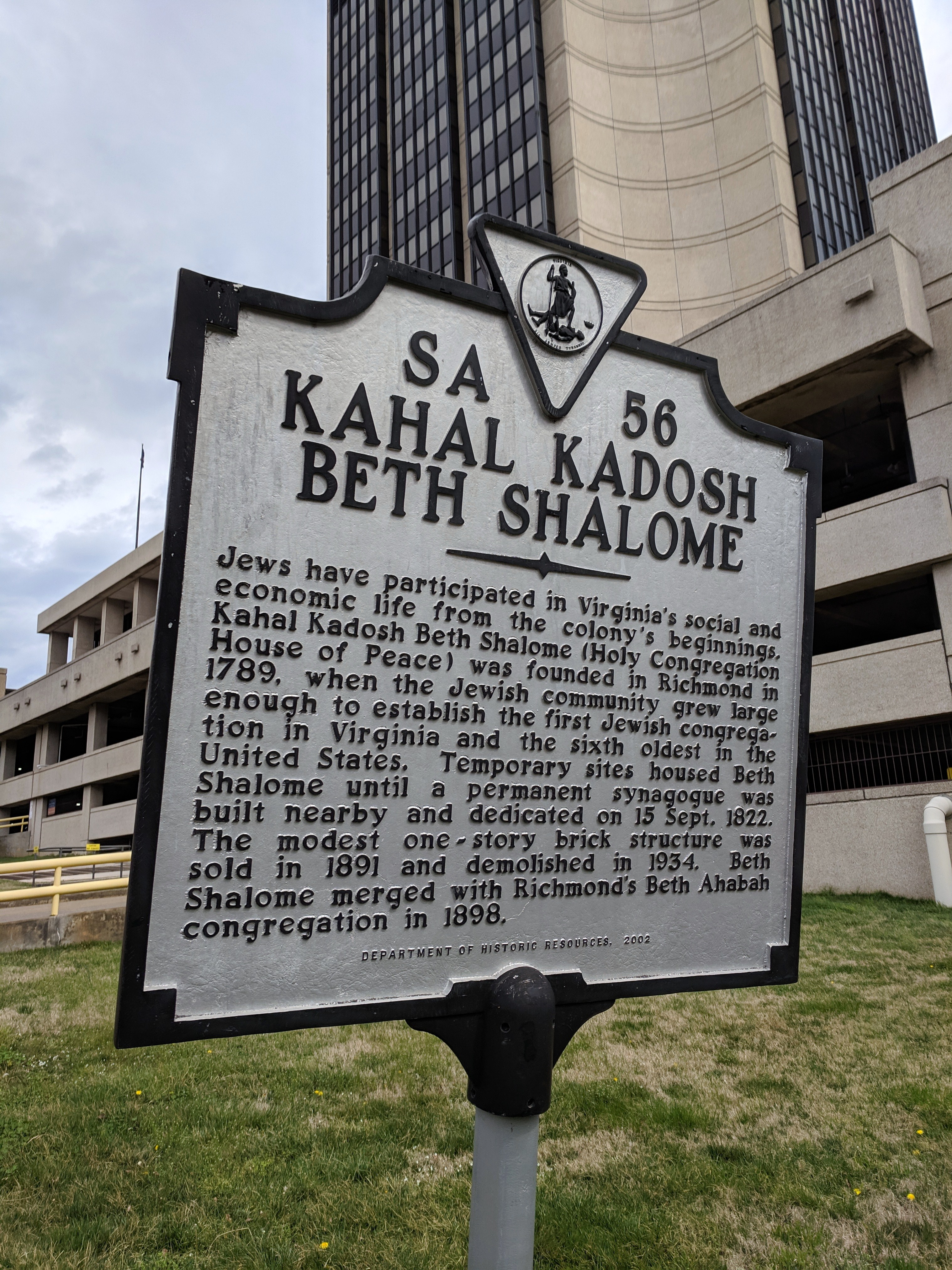 Kahal Kadosh Beth Shalome historic marker in Richmond, Virginia.